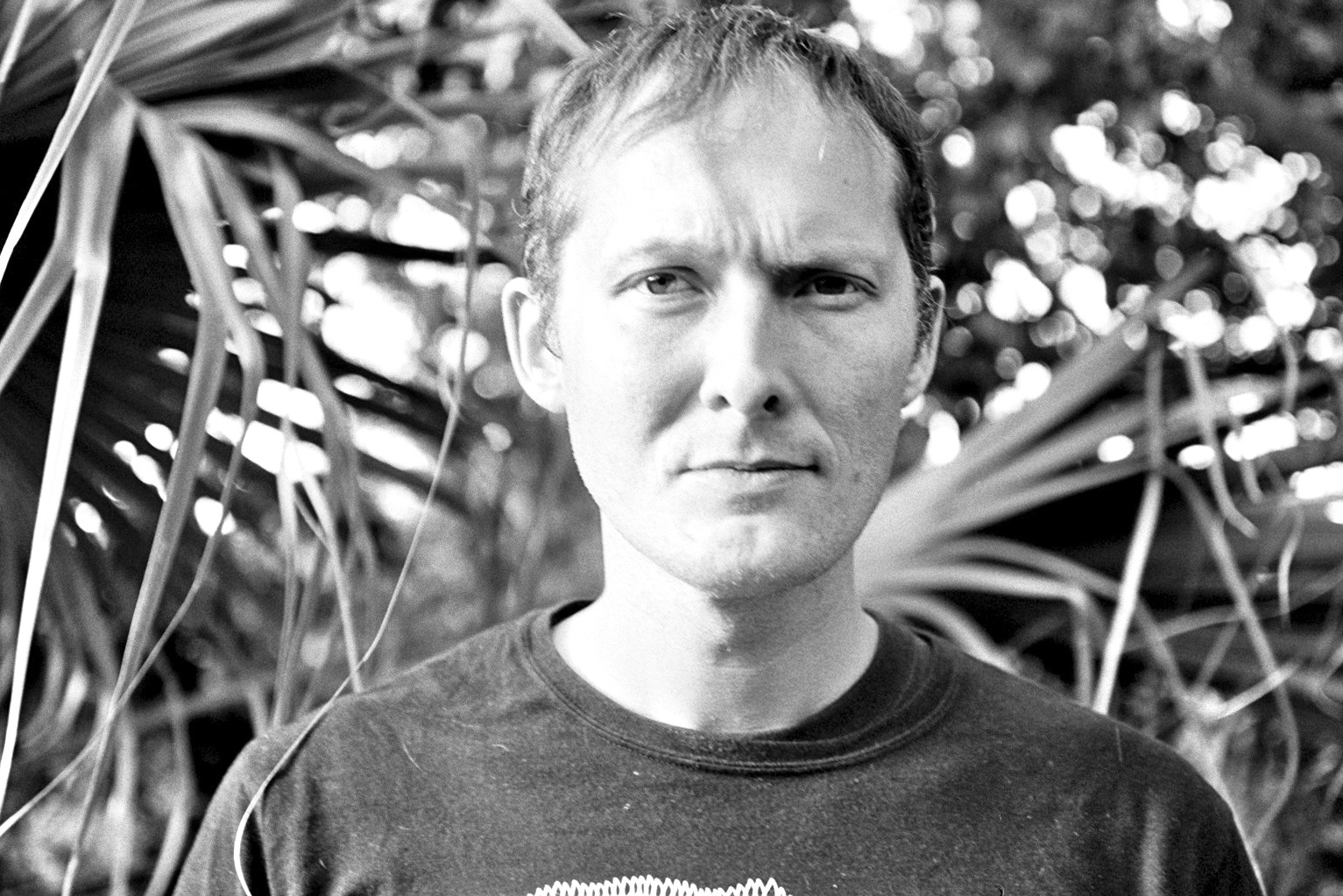 Interview with Lawrence English, 'Where there's light, there's shadow' in the Quietus. (Brisbane, Australia)